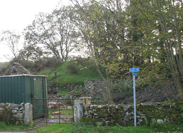 Tomen Dolbenmaen Motte Part of a 13th century motte and bailey castle. Dolbenmaen was the capital of the commote of Eifionydd ( an area extending between Beddgelert and Pwllheli), and thus an important focus of routes.